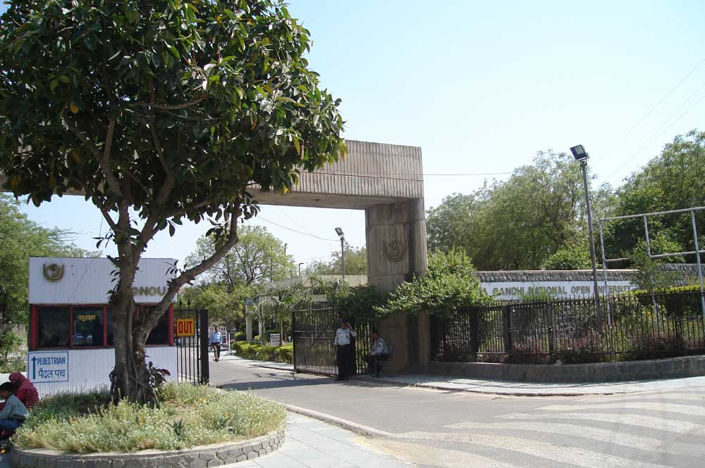 The front gate of Indira Gandhi National Open University in New Delhi, India. Pankaj Khare, Self